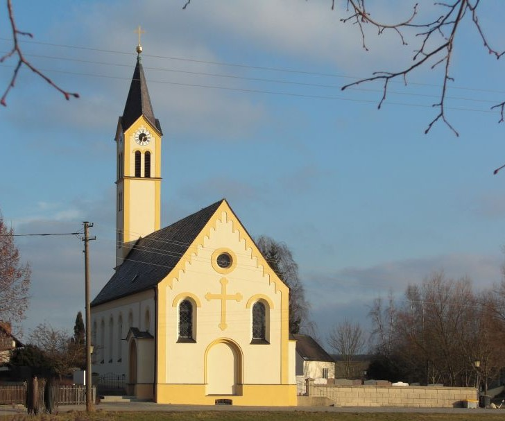 St. Johannes der Täufer church in Kammerberg (Fahrenzhausen), Bavaria, Germany